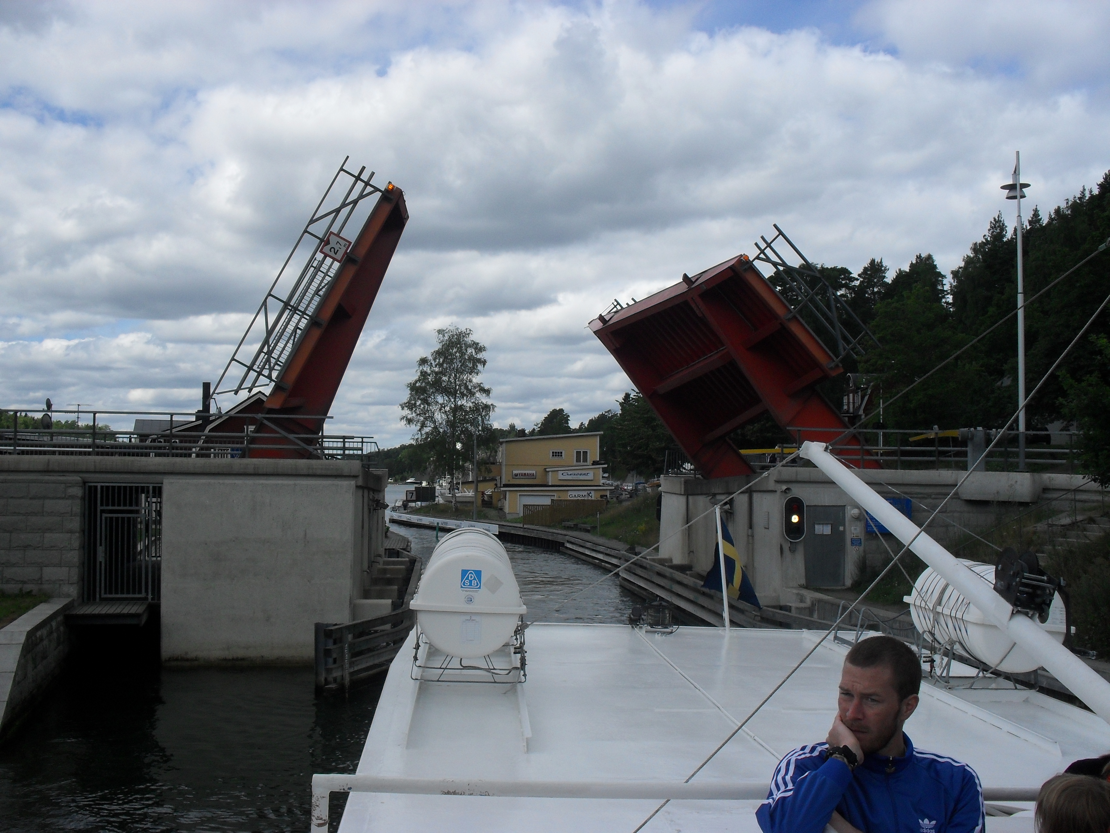 The lifting bridge across the Stromma canal, Sweden